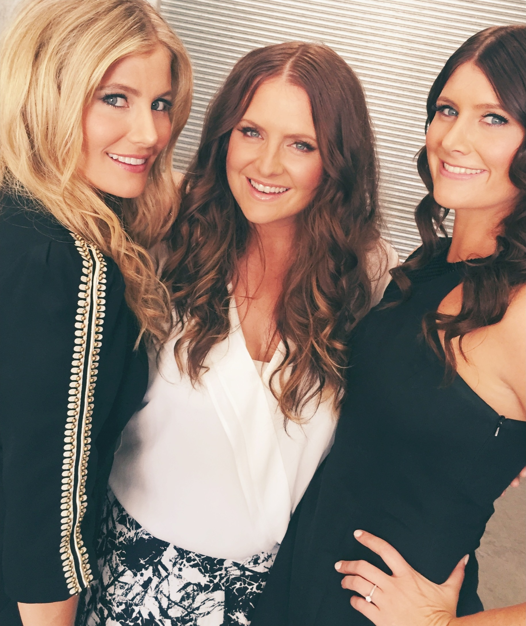 The McClymonts red carpet ready for the 2015 Country Music Awards of Australia.